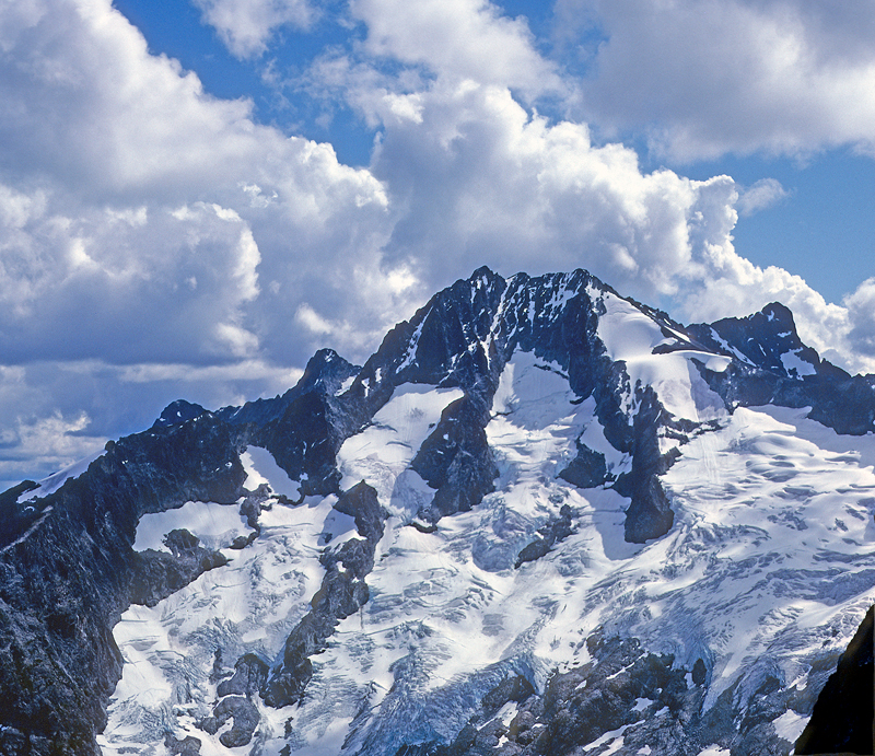 North face of Bonanza Peak, highest nonvolcanic peak in the North Cascade Range at 9,511 feet (2,899 m) elevation, viewed from south side of Mount Lyall. The massif is underlain by Marblemount meta-quartz diorite.